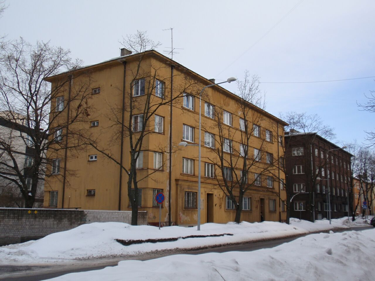 Apartment house on J. Kunderi street, Tallinn.